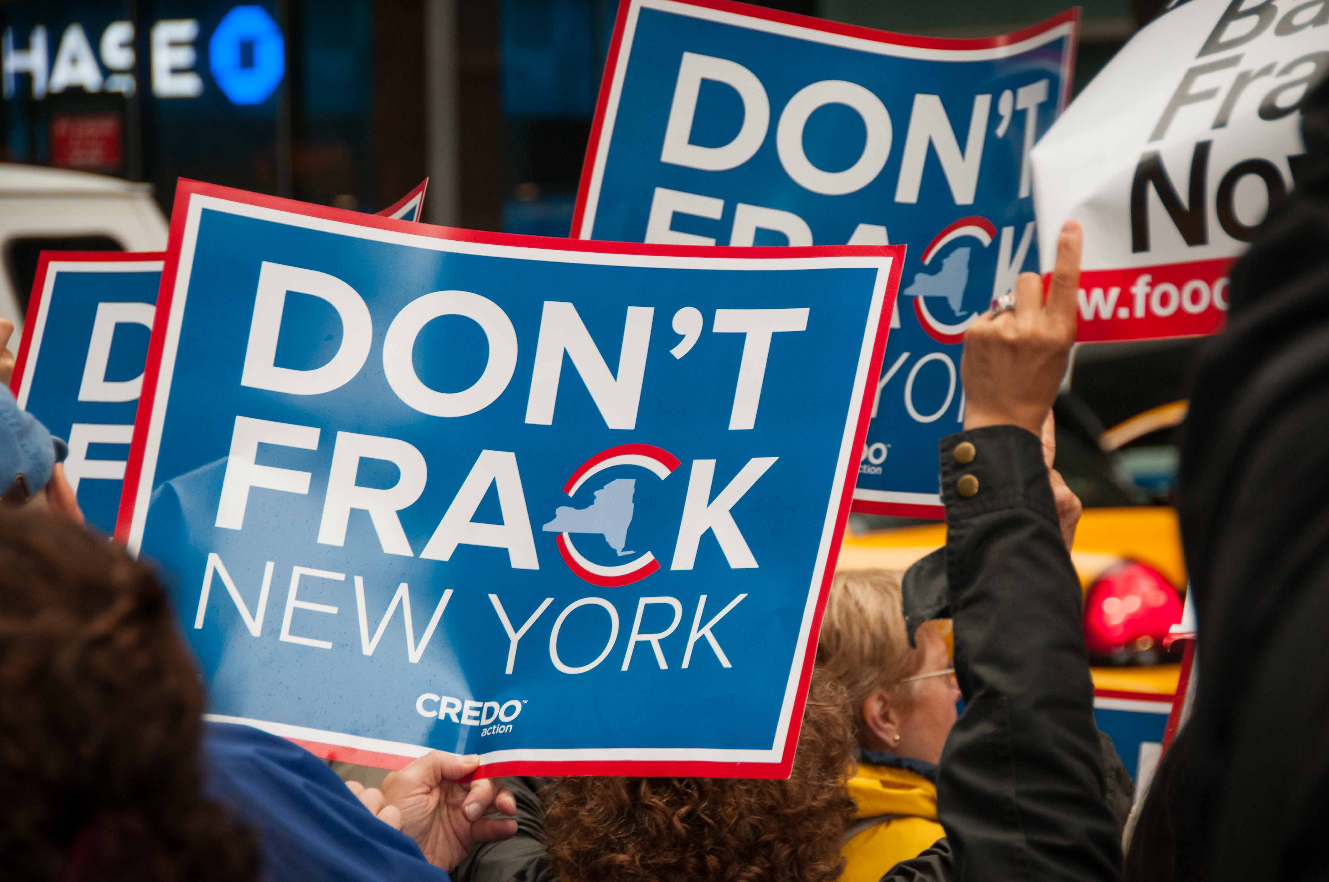 Anti-fracking demonstration outside New York Governor Cuomo's office, Third Avenue, Manhattan, NY. 9 Oct 2012. Photo Credit: Adam Welz/CREDO Action ref: 20121009_AntiFrackDemoNY-0767